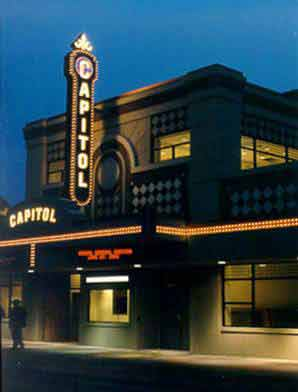 Photo of the Chatham Capitol Theatre.